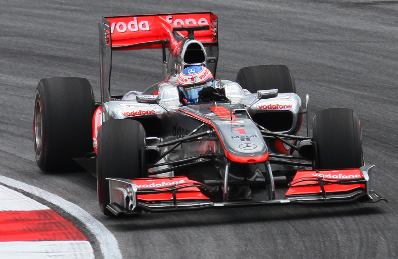 Formula One 2010 Rd.3 Malaysian GP: Jenson Button (McLaren) during Saturday 3rd Free Practice session.